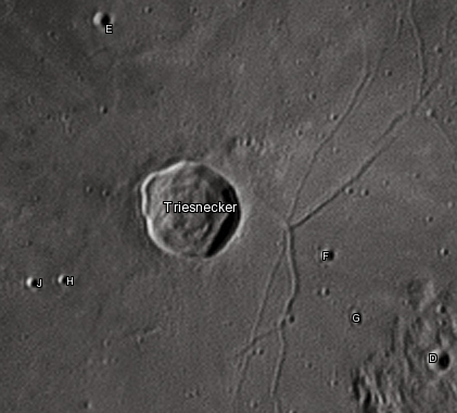 Triesnecker lunar crater as seen from Earth with satellite craters labeled